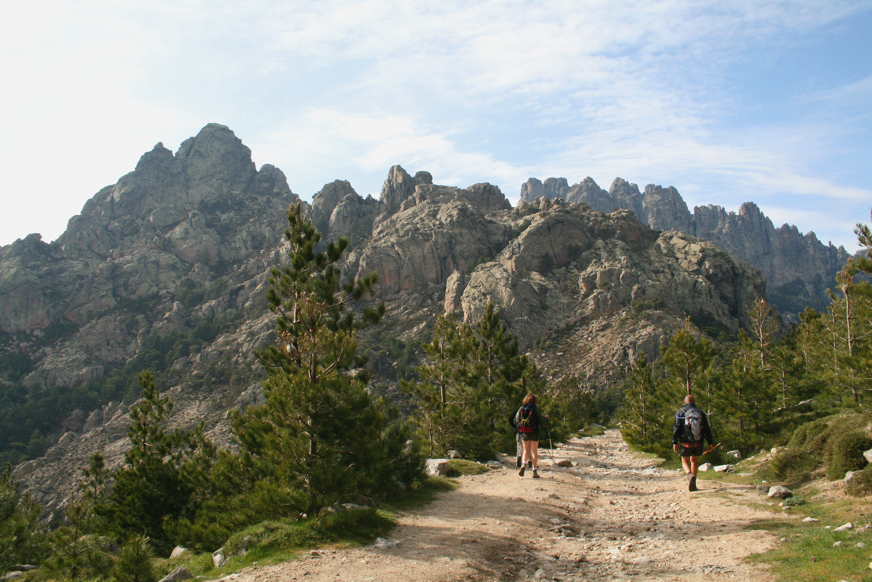 Zonza France (Corse-du-Sud), the Bavella needles. Walon: Zonza France (Corse-do-Sud), les awîyes di Bavèla.